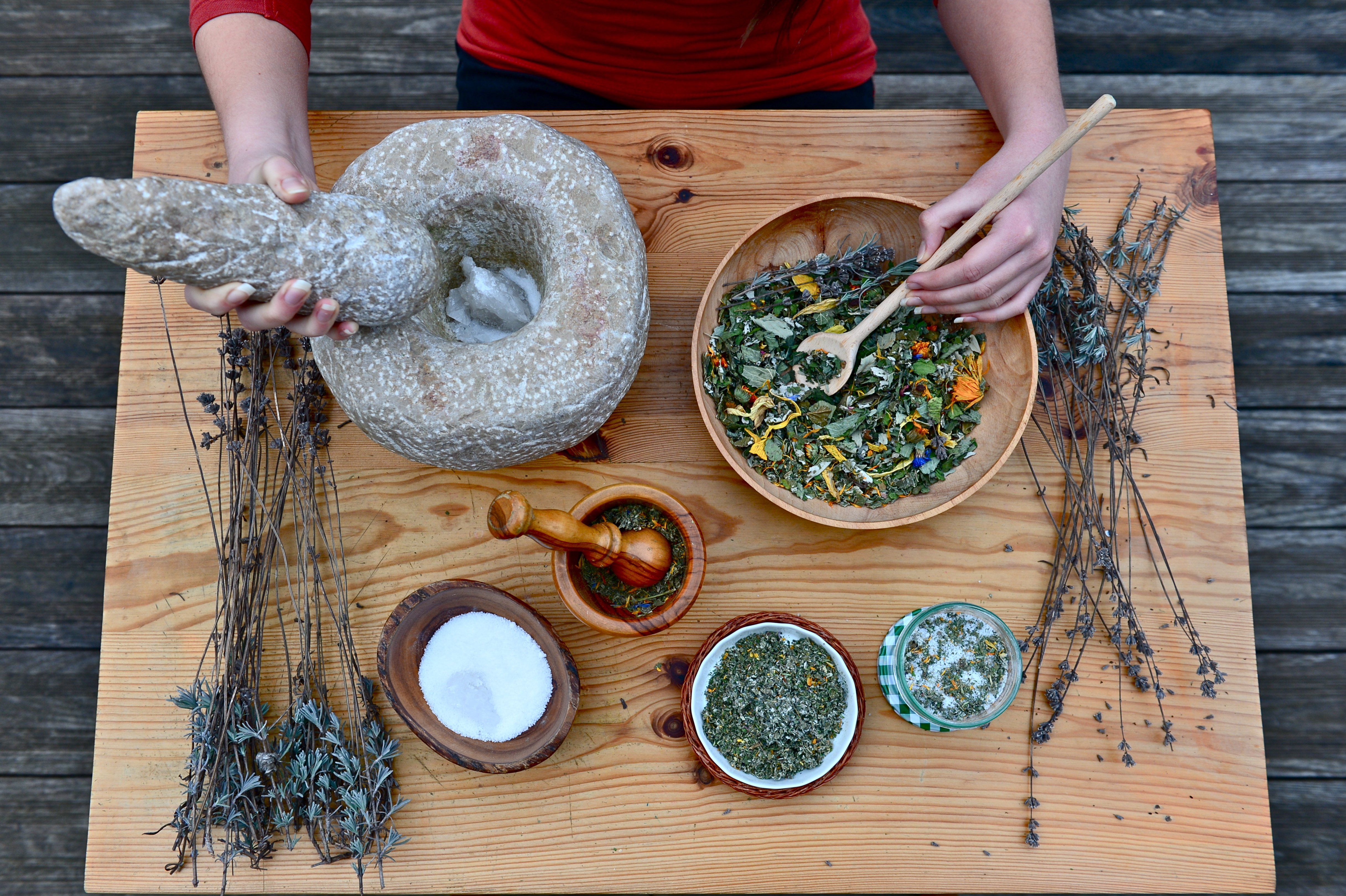 Making of herbal salt by means of mortars and pestles, municipality Poertschach on the Lake Woerth, district Klagenfurt Land, Carinthia, Austria, EU